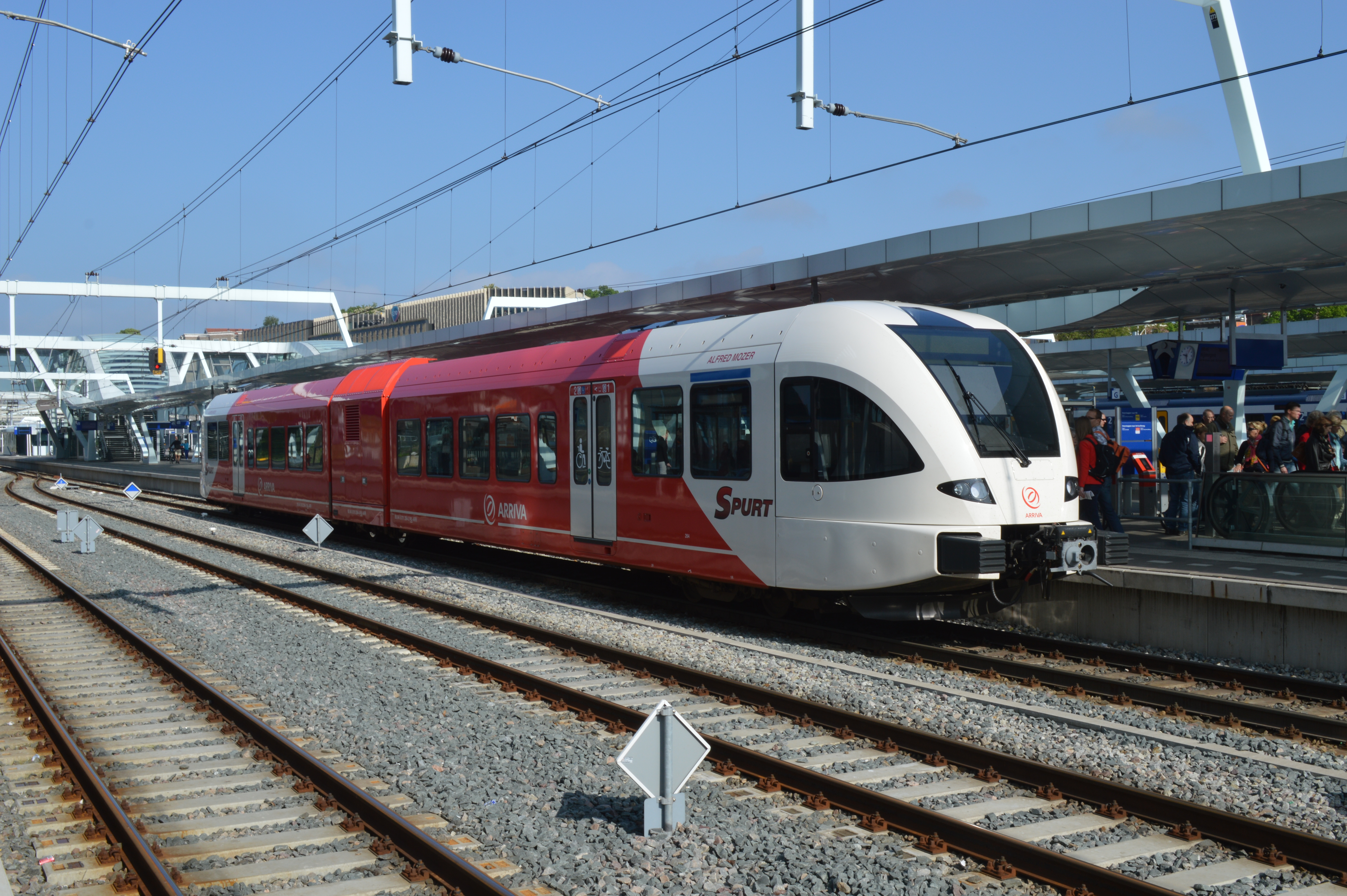 Arriva have taken charge of several lines in the Netherlands using various Stadler "Spurt" DMUs and EMUs. Seen here at Arnhem on the morning of 19 May 2013, type GTW2/6 no. 10264 is in charge of train 30927, 09:27 Arnhem to Winterswijk.